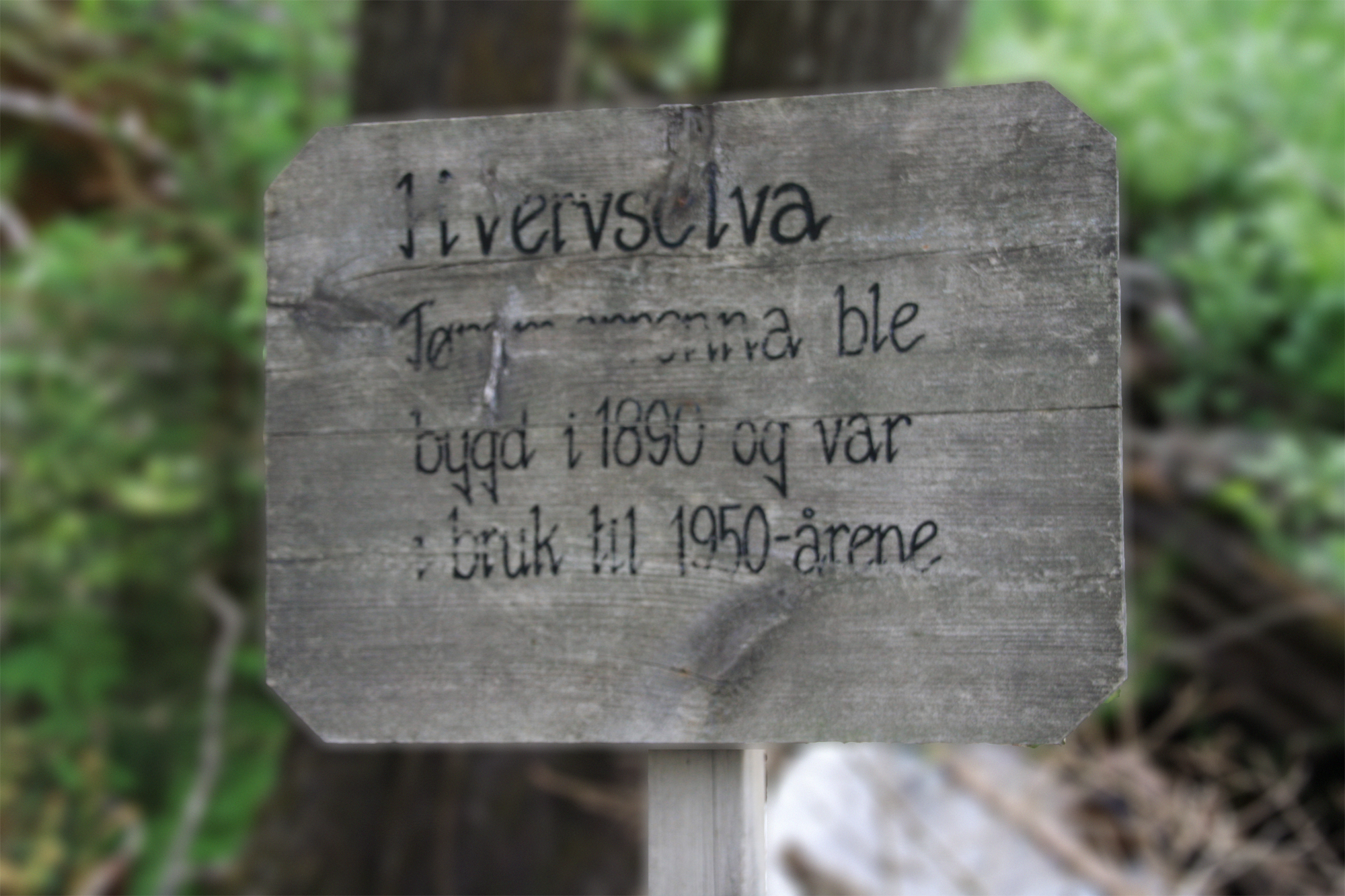 The Soot Canal - picture of old Timberpass (water transport)